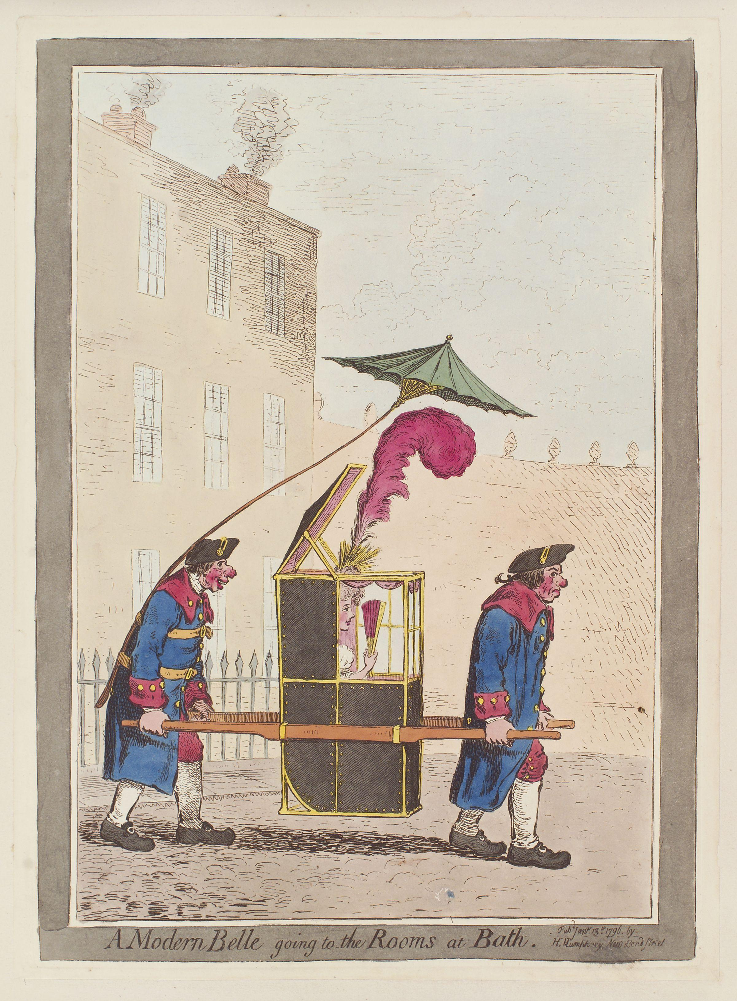 A modern belle going to the rooms at Bath, 1796 caricature by James Gillray satirizing the newest fashion of women wearing one or two vertical feathers in their headdresses. (See File:Tippies-of-1796-caricature.jpg for another caricature on this subject.) She is being carried in a "chair" vehicle by two sturdy footmen. All images in this batch have been confirmed as author died before 1939 according to the official death date listed by the NPG.